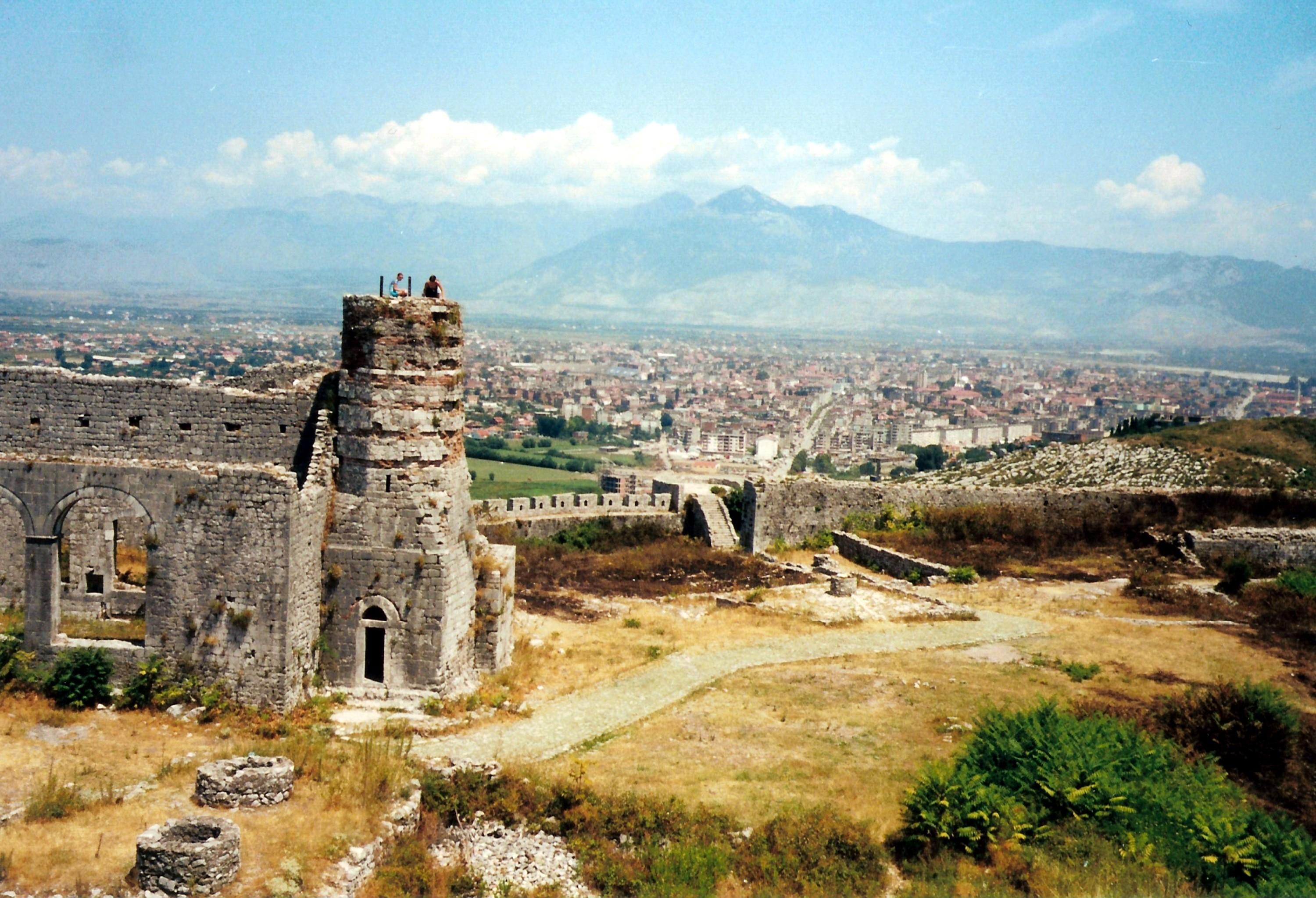 Ruins of Rozafa with cathedral Saint Stephan, south of Shkodër (Albania) with Shkodër in the background. Scan from a conventional photo. Enhanced with The Gimp.